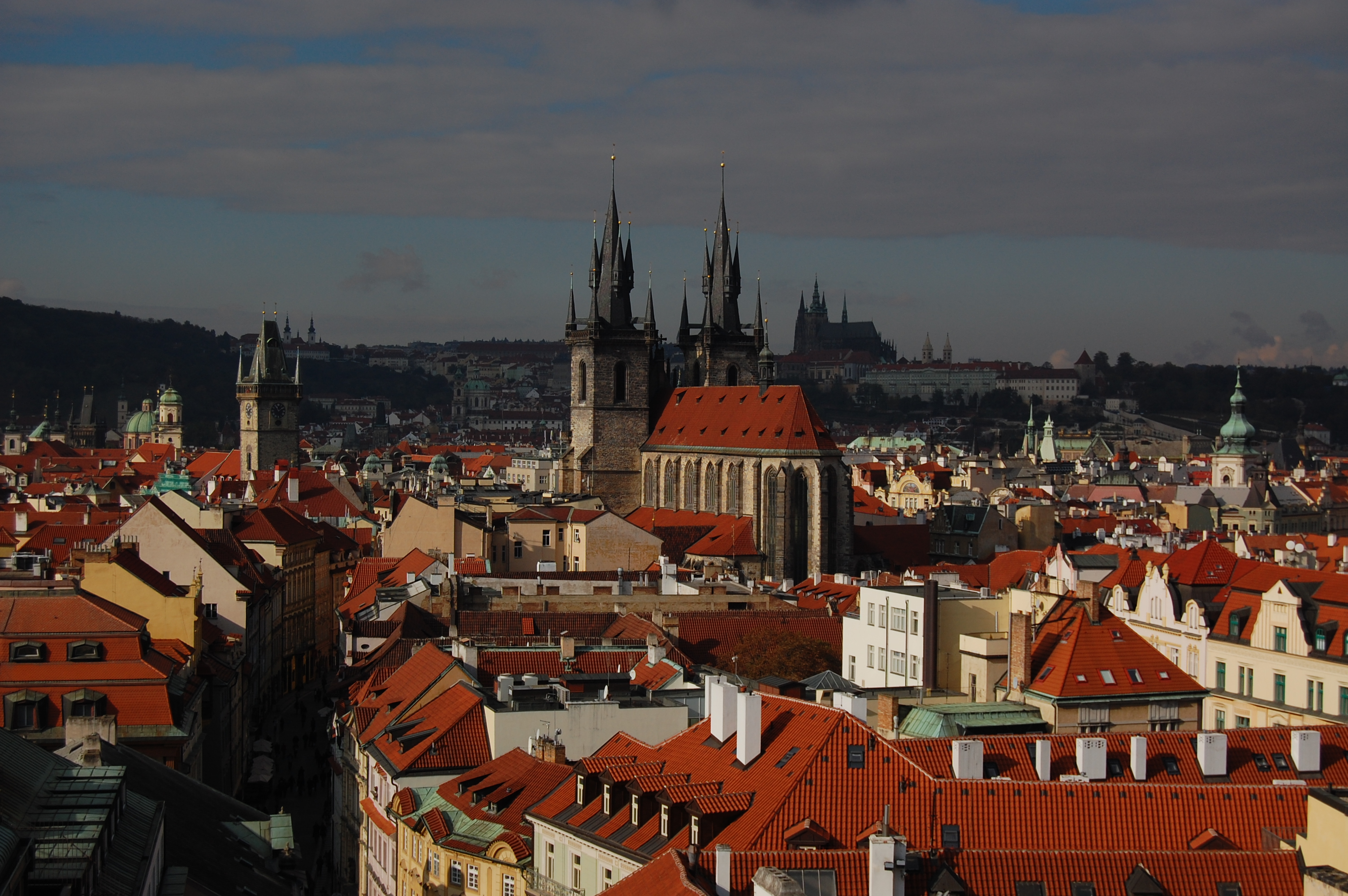 Prague View from gunpowder tower